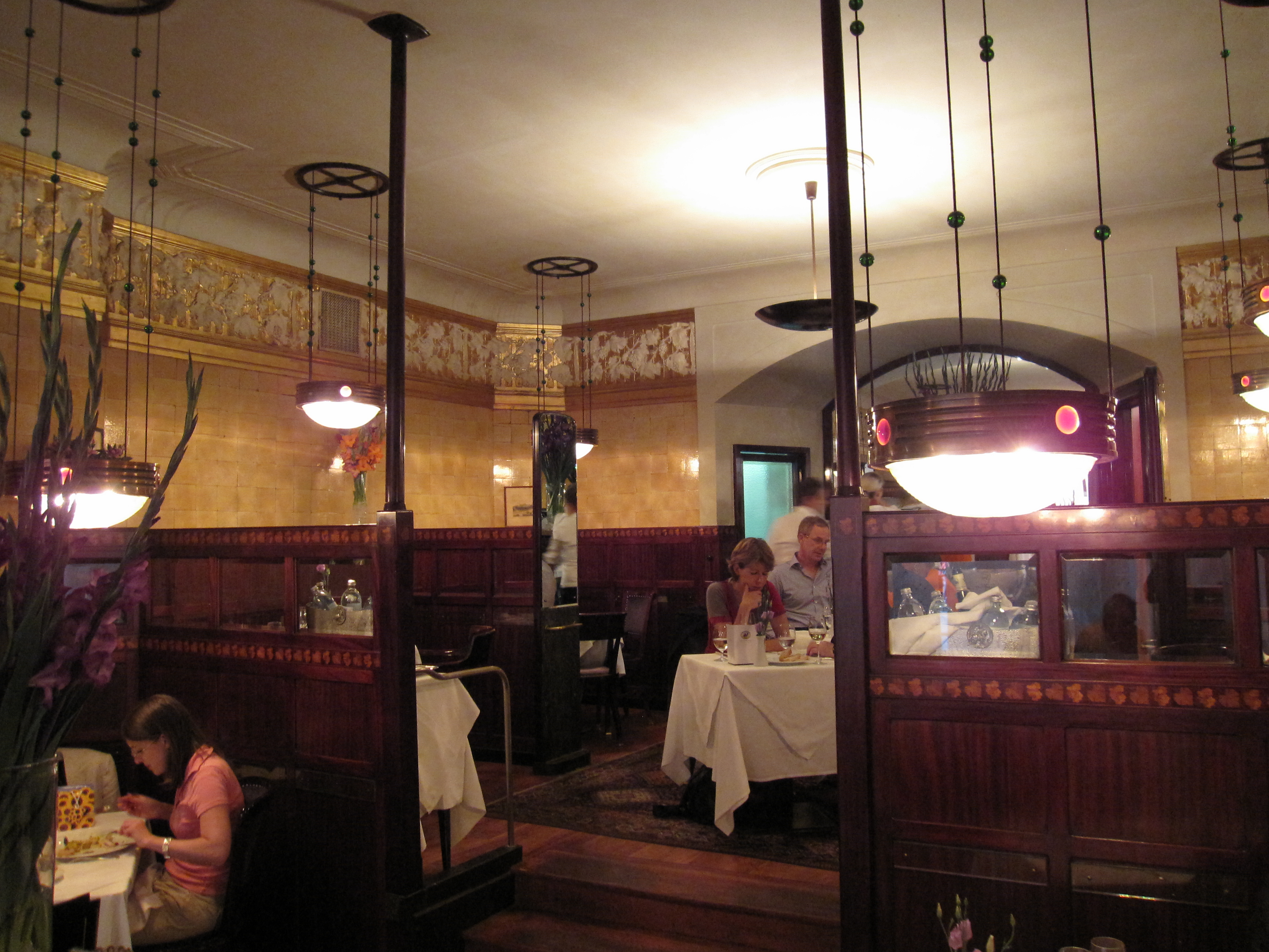 Interior of the Zum Schwarzen Kameel in Vienna, made in art nouveau.